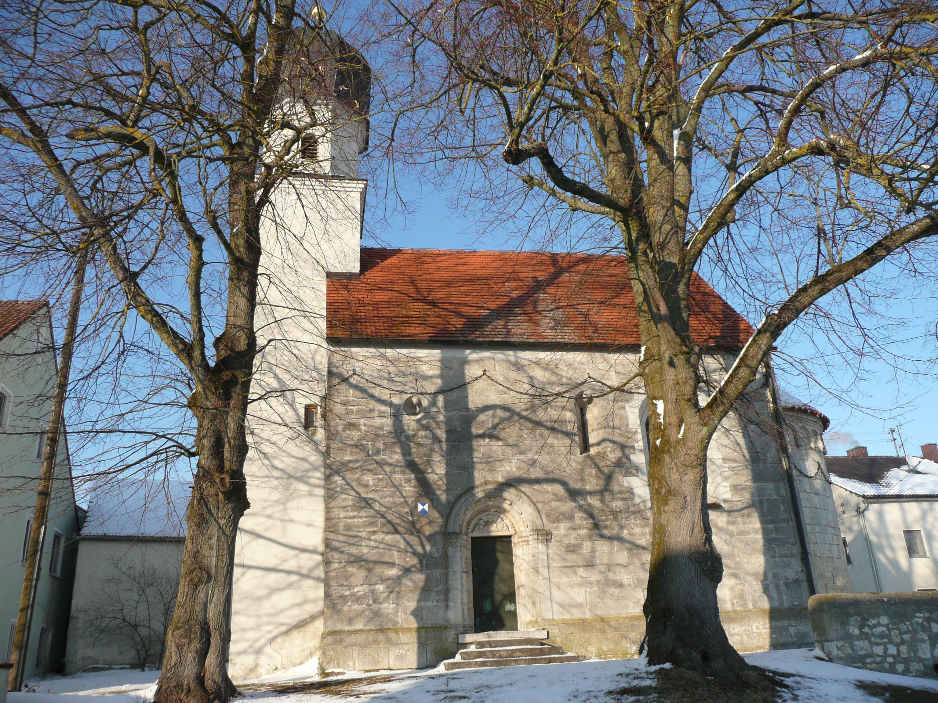 Saint Leonard church in Tholbath near Theißing seen from South. Romanic, sanctified in 1190 with new tower on the westside from 1907.